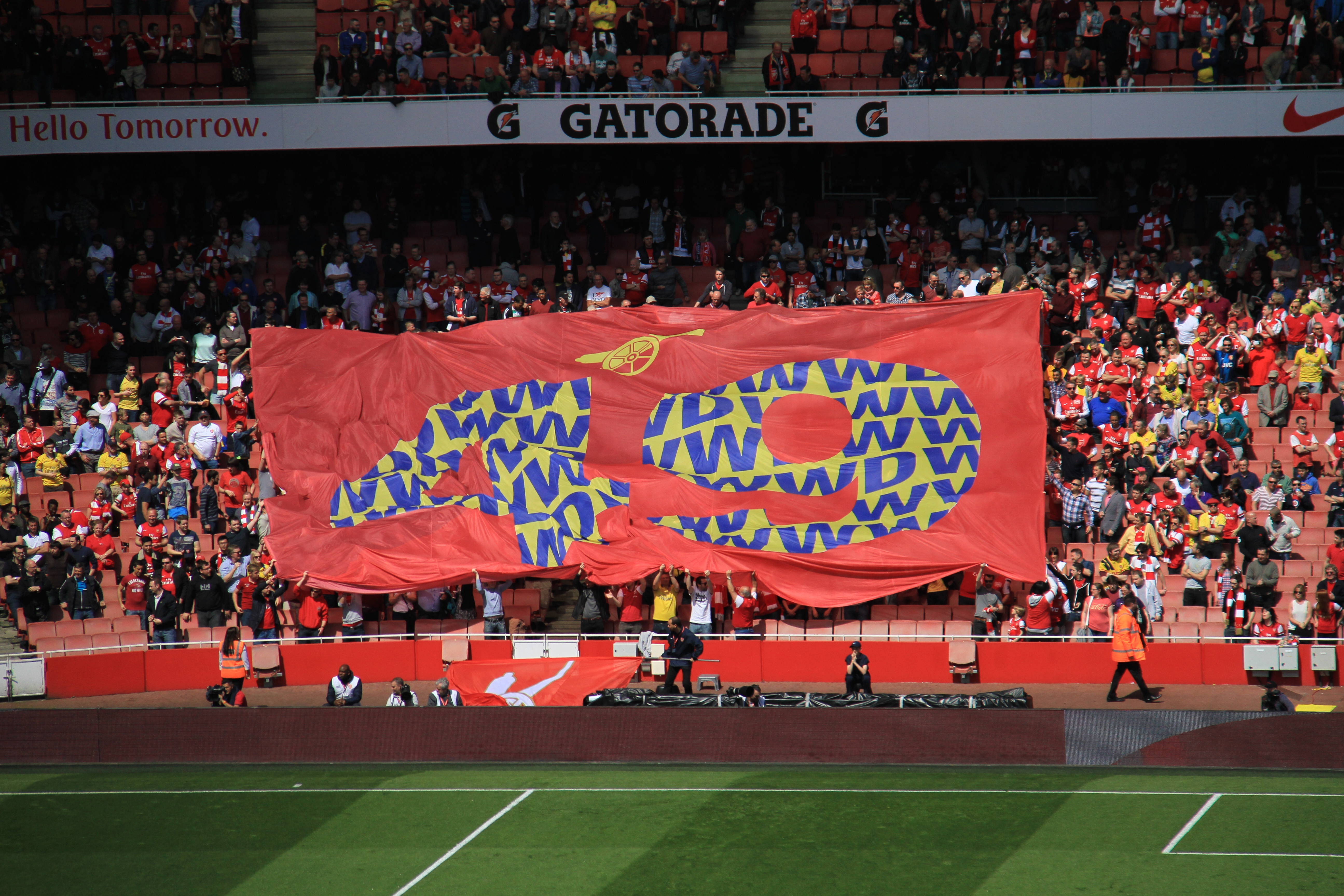 Arsenal F.C. supporters holding a 49 Unbeaten banner